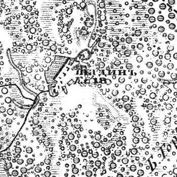 Zhaden on the map "Военно-топографическая карта Российской Империи" (known as "Schubert's map"), XX 5, 1866-1887 (issued in 1913).